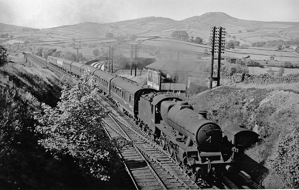 Manchester Central - London St Pancras express at Chinley South Junction. View northward, towards Chinley Station and Manchester to the left, the loop to the right going to join the Hope Valley line to Sheffield: a fine weather panorama across the Goyt Valley to the High Peak (Kinder Scout 2,088 ft.). The 16.25 express from Manchester (Central) is headed by LMS 'Jubilee' 6P 4-6-0 No. 45598 'Basutoland'. It is taking the Peak Line to Millers Dale, Matlock and Derby, which was closed Chinley - Matlock on 6/3/67 - except for limestone traffic northwards from Peak Forest.